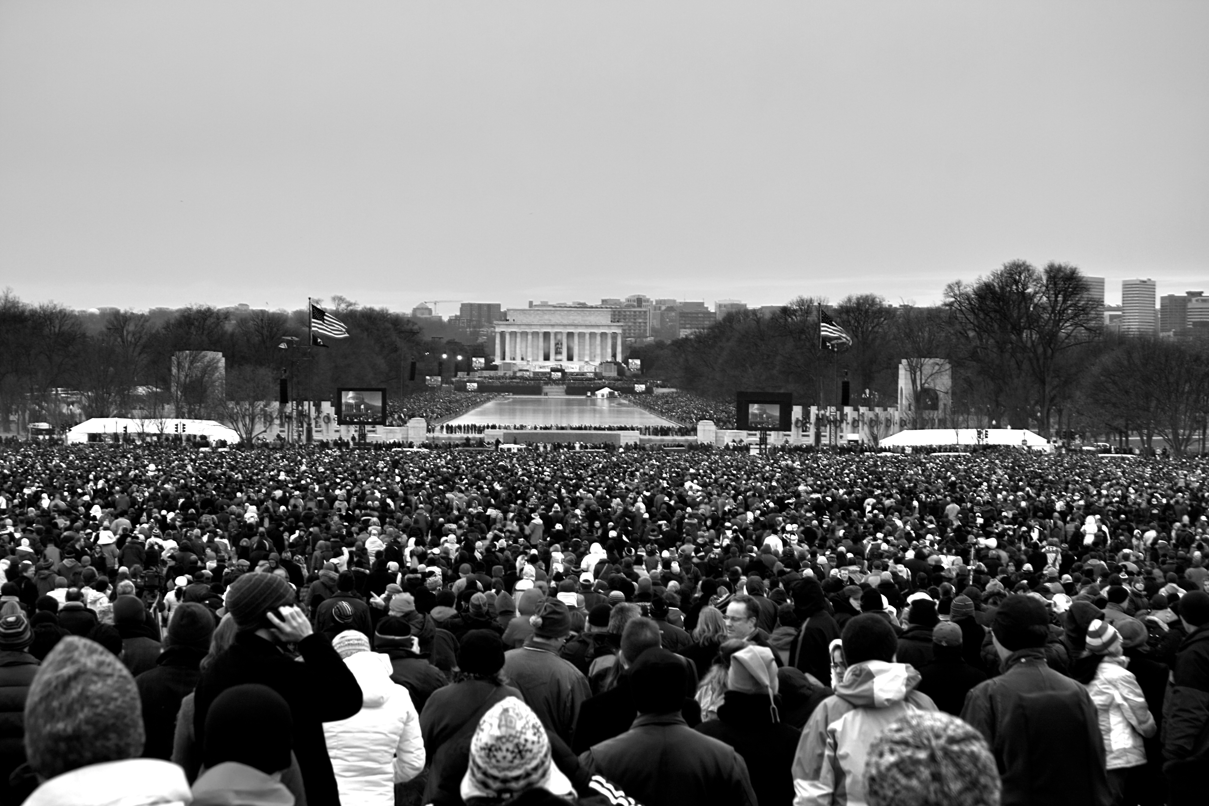 The crowd at Barack Obama's inauguration party.